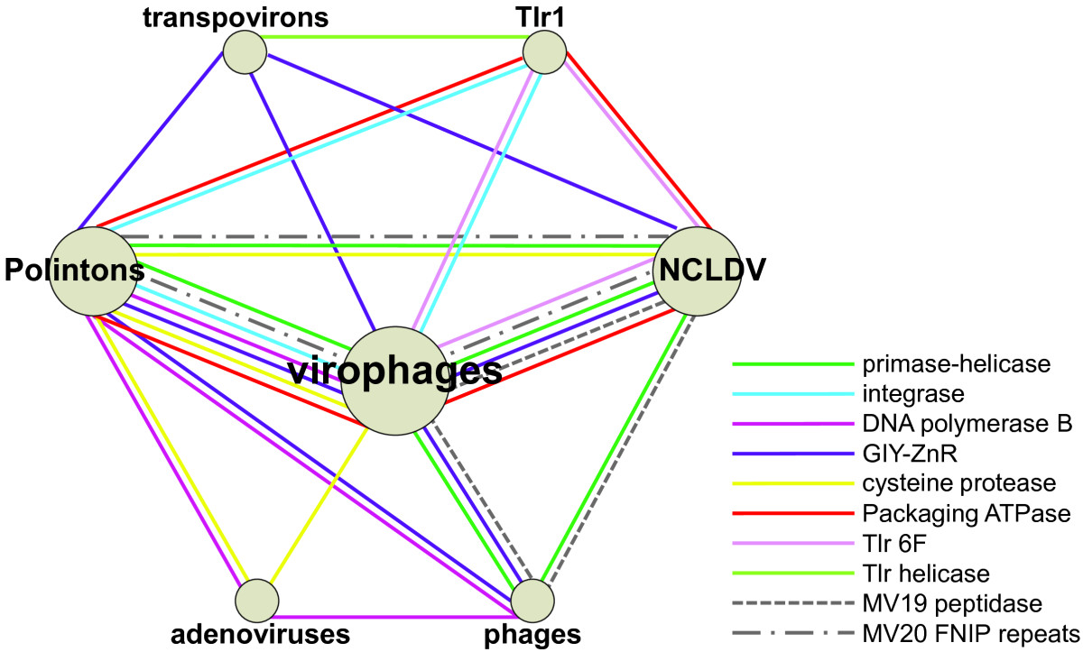 An illustration of the genetic network linking various types of viruses and selfish genetic elements, represented by labeled circles. Links between circles are color-coded by the gene whose sequence homology establishes the link. Figure 8 from the following paper: Yutin N, Raoult D, Koonin EV. Virophages, polintons, and transpovirons: a complex evolutionary network of diverse selfish genetic elements with different reproduction strategies. Virology journal. 2013 May 23;10(1):1. PMC 3671162. PMID 23701946.